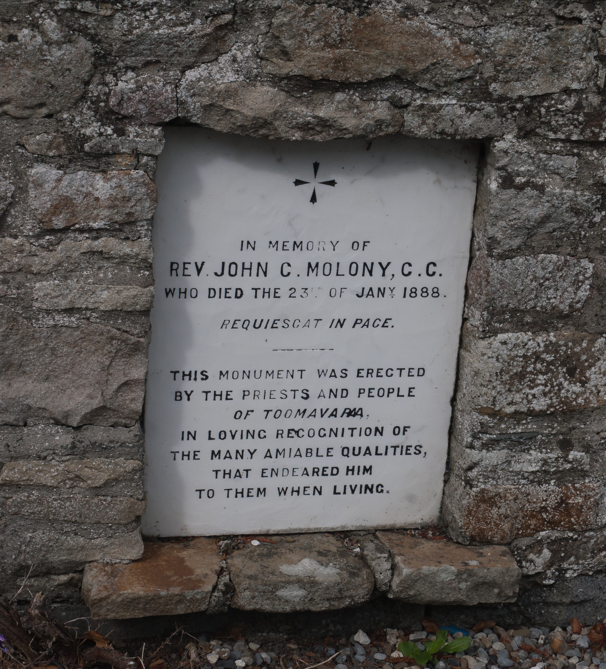 Memorial plaque dedicated to John C. Molony at the wall between St. Joseph's Church and Toomyvara Priory.